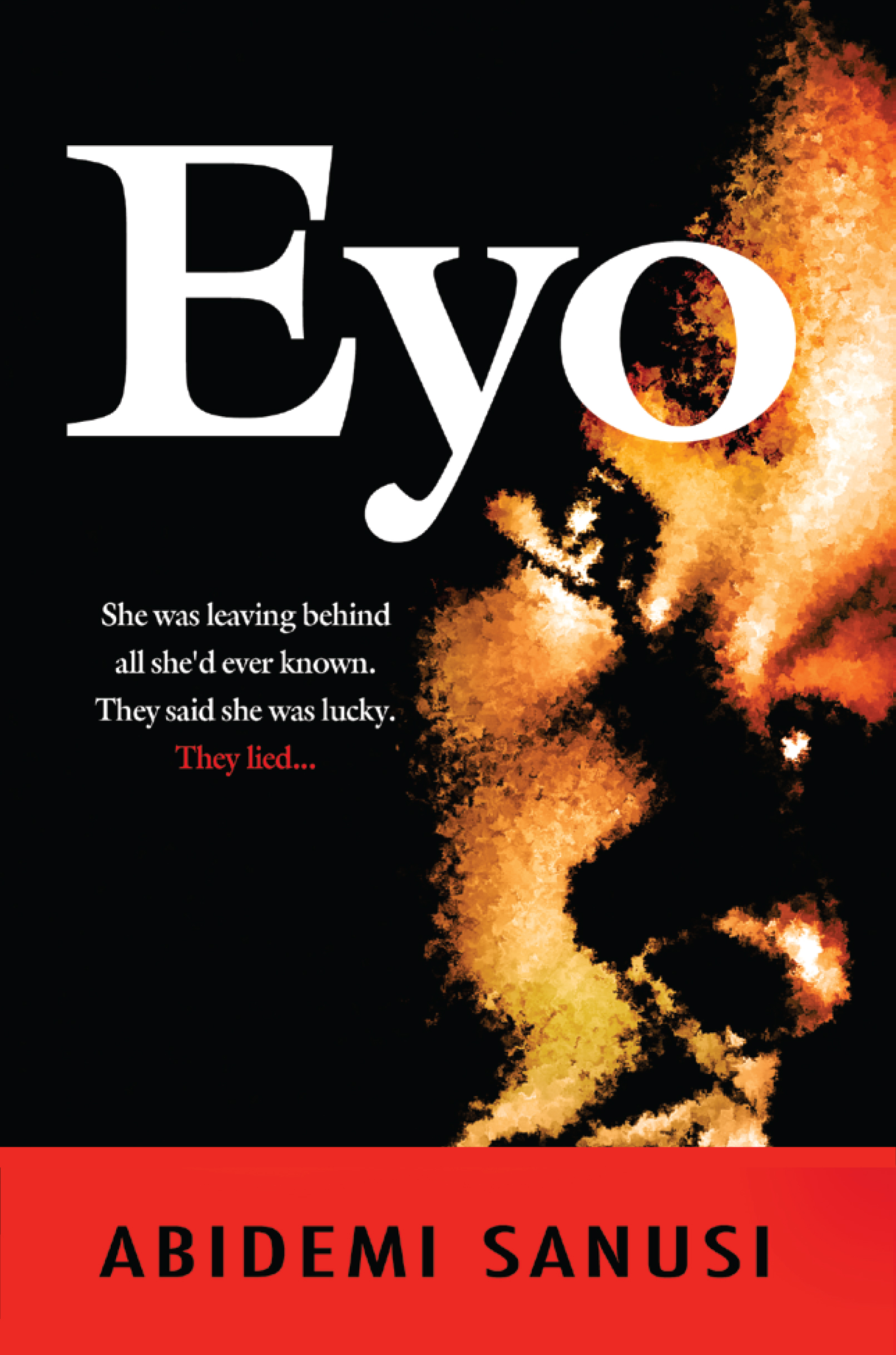 Image of the book cover for "Eyo" published by WordAlive publishers